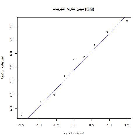 مثال لمبيان التجزيئات